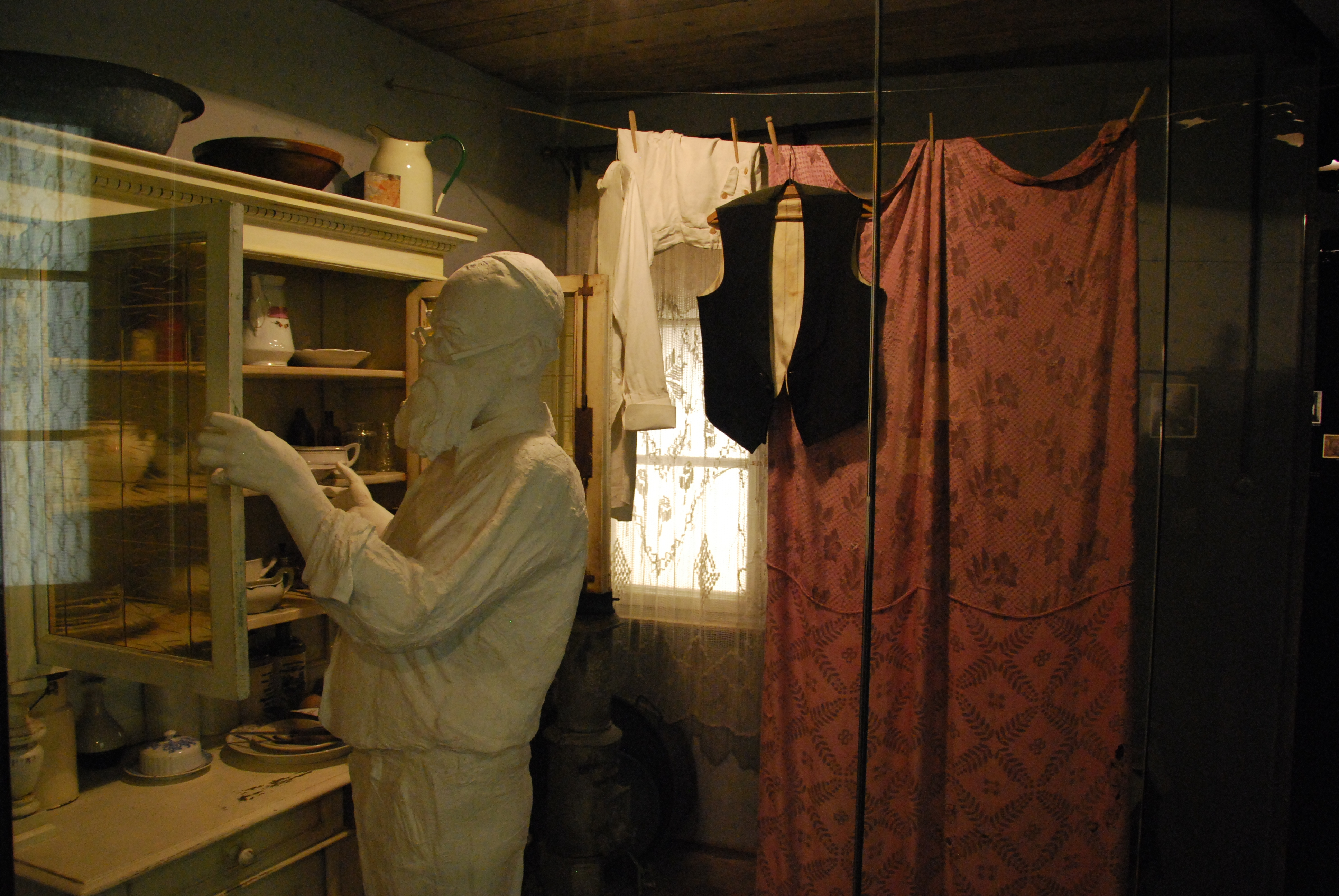 Schindler's Factory, Kraków, interior